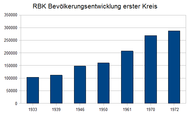 Inhabitants in the Rheinisch-Bergischer Kreis, a district in Germany from 1933 to 1972.